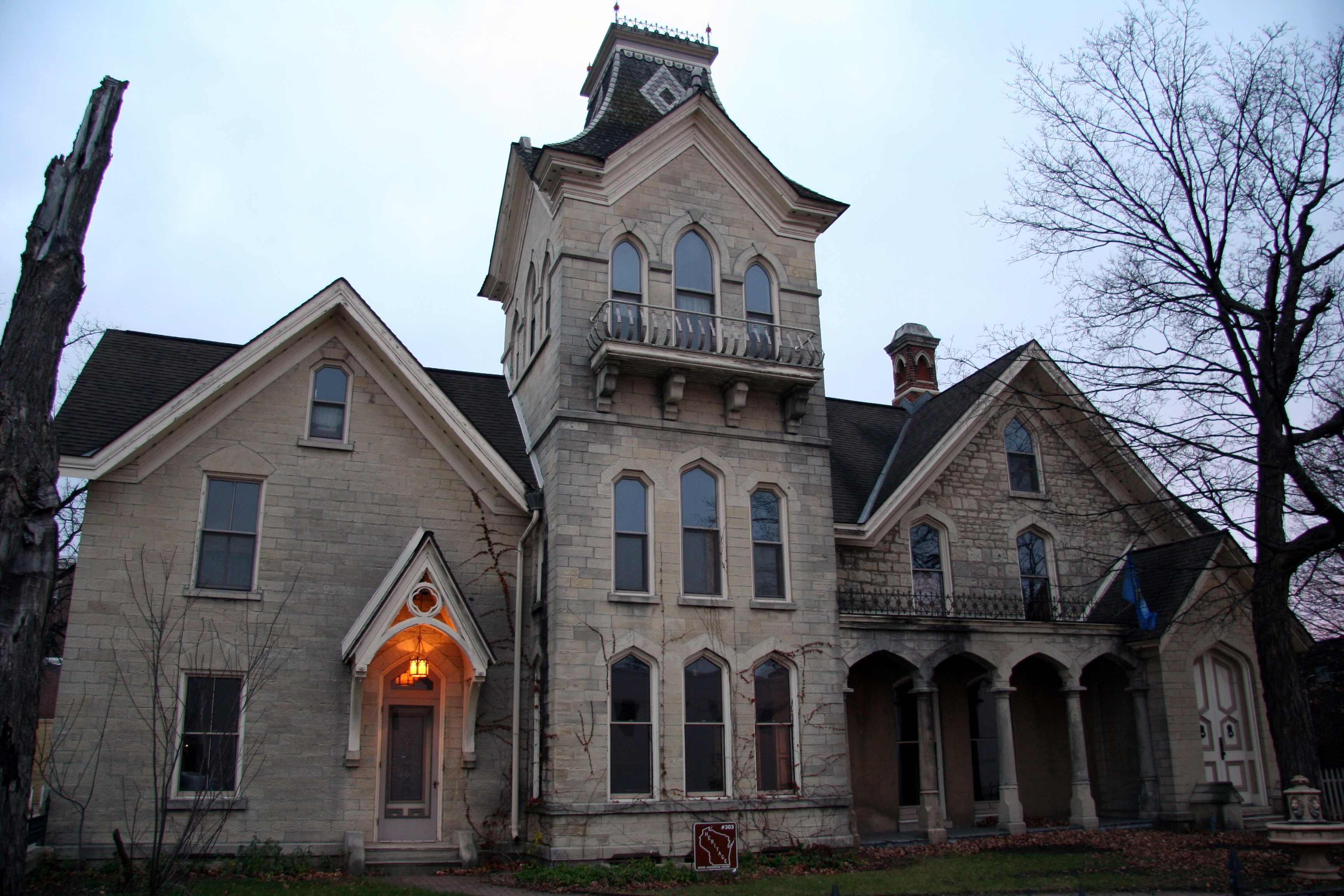 The historic Mons Anderson House, also known as the Chateau La Crosse, seen from Cass Street in La Crosse, Wisconsin